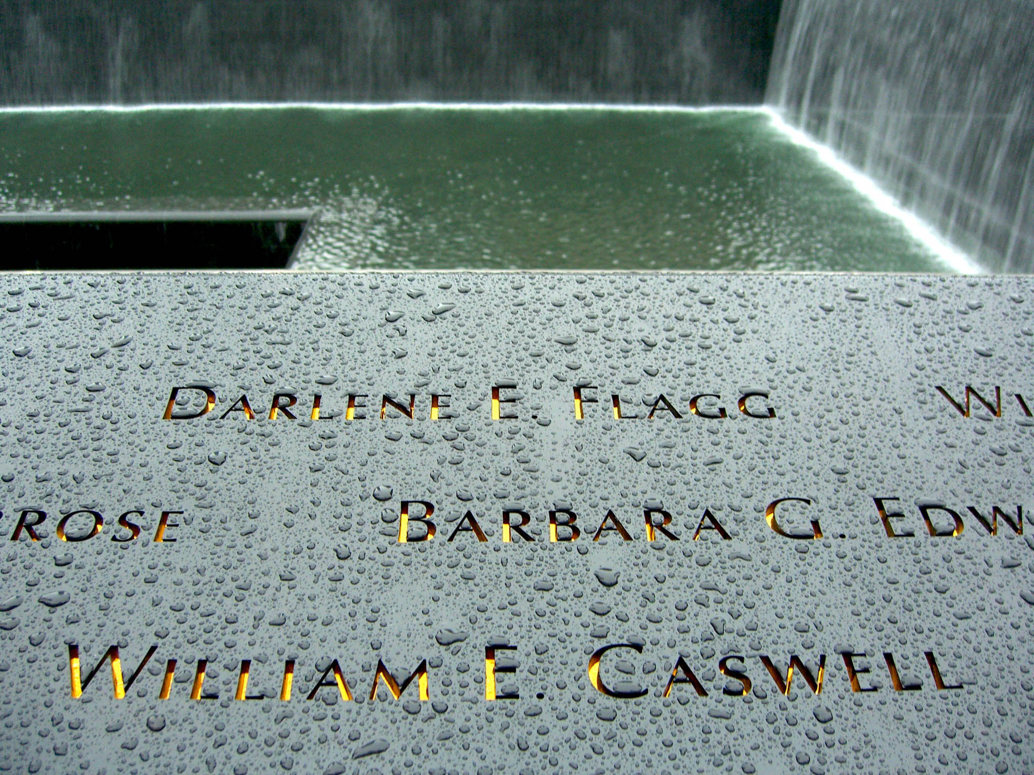 The name of Darlene E. Flagg and William E. Caswell are seen with those of other 9/11 victims from American Airlines Flight 77 inscribed on bronze panel S-70 of the South Pool of the National September 11 Memorial in Manhattan, on December 6, 2011. This photo was created by Luigi Novi. If you have any questions, you can contact me by sending me an email or User talk:Nightscream